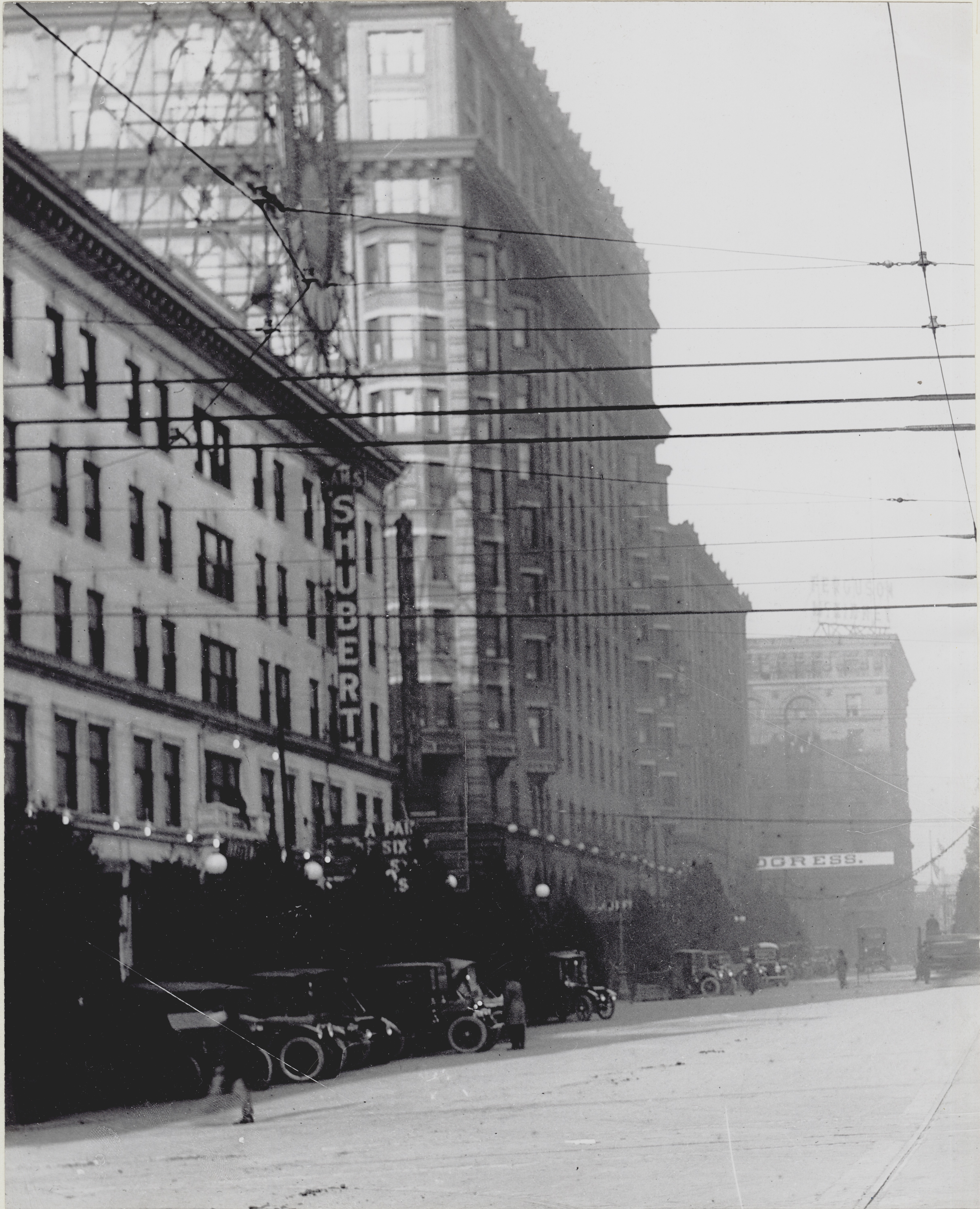 Vertical, black and white photograph looking north on Twelfth Street (later Tucker Boulevard) at Locust Street. The left side of the photograph shows the Shubert Theater in the Union Electric Building, as well as several neighboring buildings. Fir trees can be seen behind a row of parked cars in front of the theater. Power lines criss-cross the center of the image. For a detail taken from this image, see P0054-00002. A typed note on the back of the P0054-00002 print reads: "North in Twelfth Blbd. at Locust street. Old Shubert Theatre was in the Union Electric Building, prior to addition of five upper stores. Show was a farce, "A Pair of Sixes and a Torn Queen." Early 1920s." Below this, a note in pencil reads: " 'A Pair of Sixes' played at the Schubert in 1915."Title: Looking north on Twelfth Street (later Tucker Boulevard) at Locust Street, showing the Shubert Theater in the Union Electric Building.